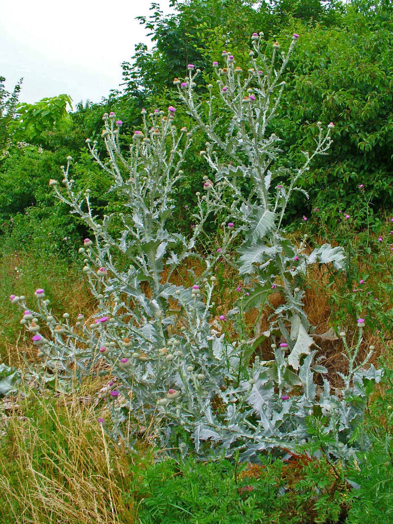 Onopordum acanthium, Asteraceae, Cotton Thistle, habitus; Stutensee, Germany.